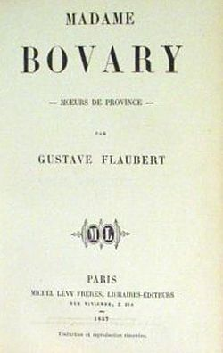 Title page from the original edition of Madame Bovay (1857).